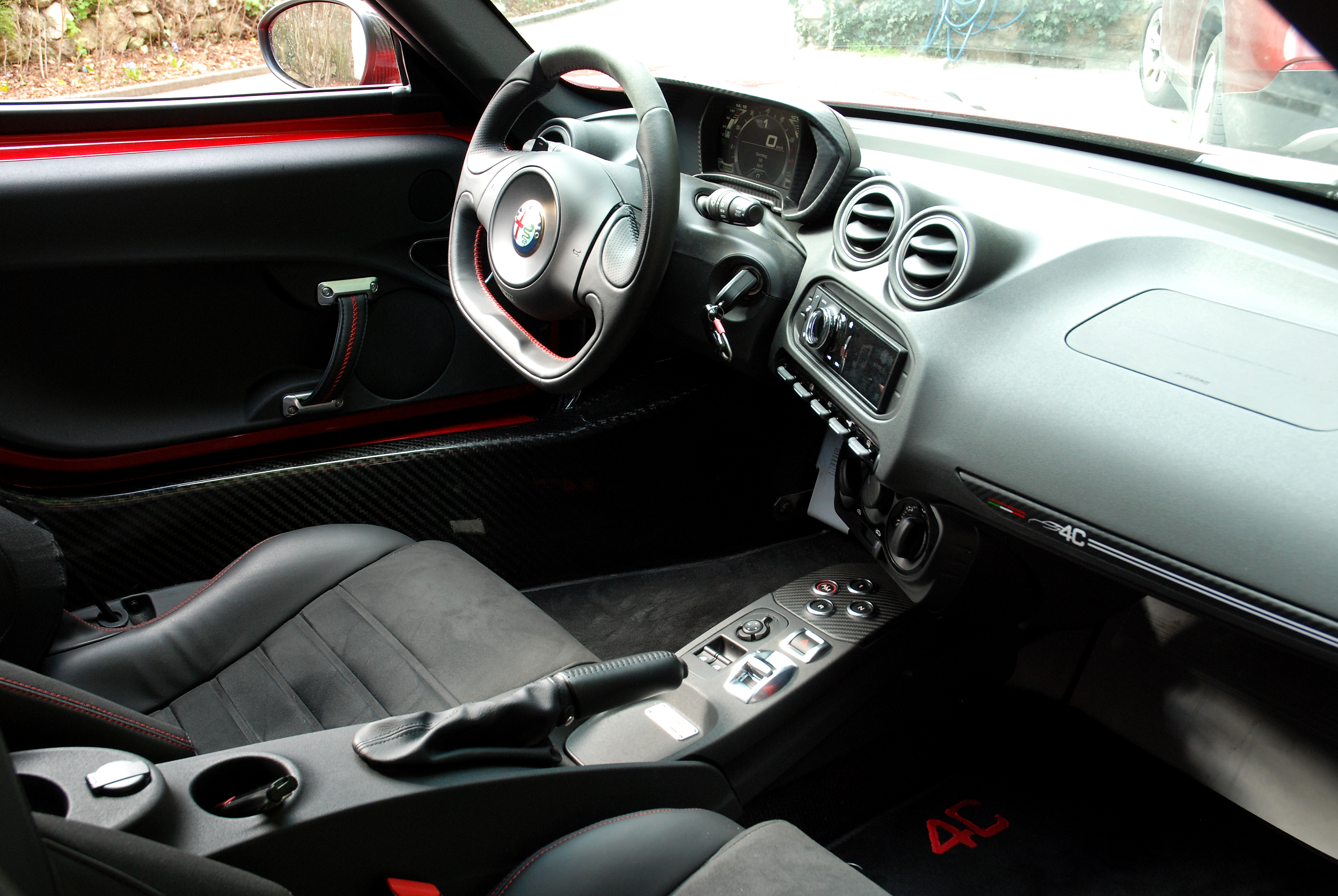 This picture shows the dashboard of an Alfa Romeo 4C, taken through the co-driver's door.